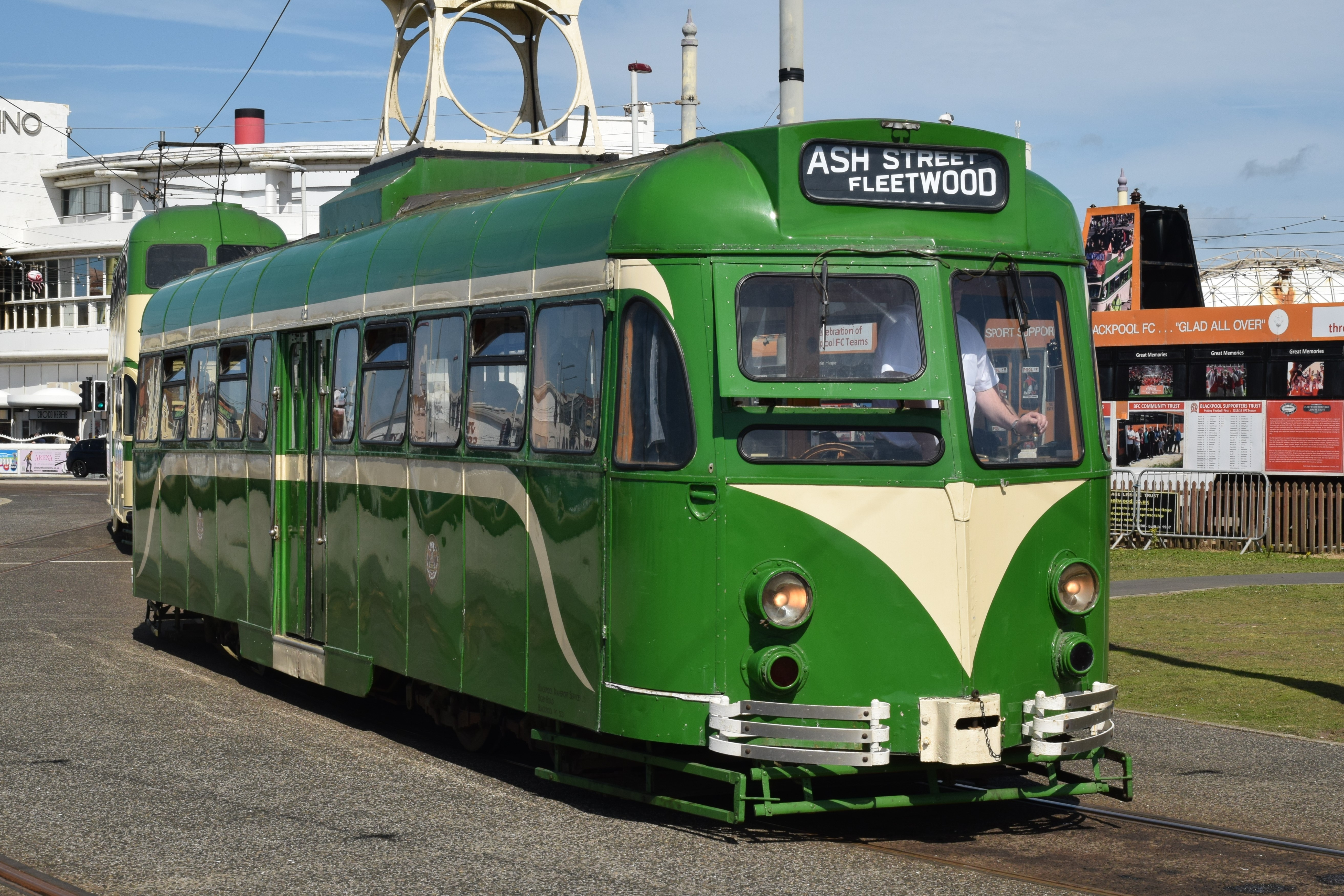 Blackpool Transport. Brush (Loughborough) built July 1937, No.286. Renumbered No.623 in 1968. Owned by the Manchester Transport Museum Society and on loan from Heaton Park tramway. Painted in Wartime livery (2008). Seen at BLACKPOOL, Pleasure Beach, 16th July 2017 (Tram Sunday), operating a heritage service between Fleetwood and Blackpool Pleasure Beach. 170716.154220.